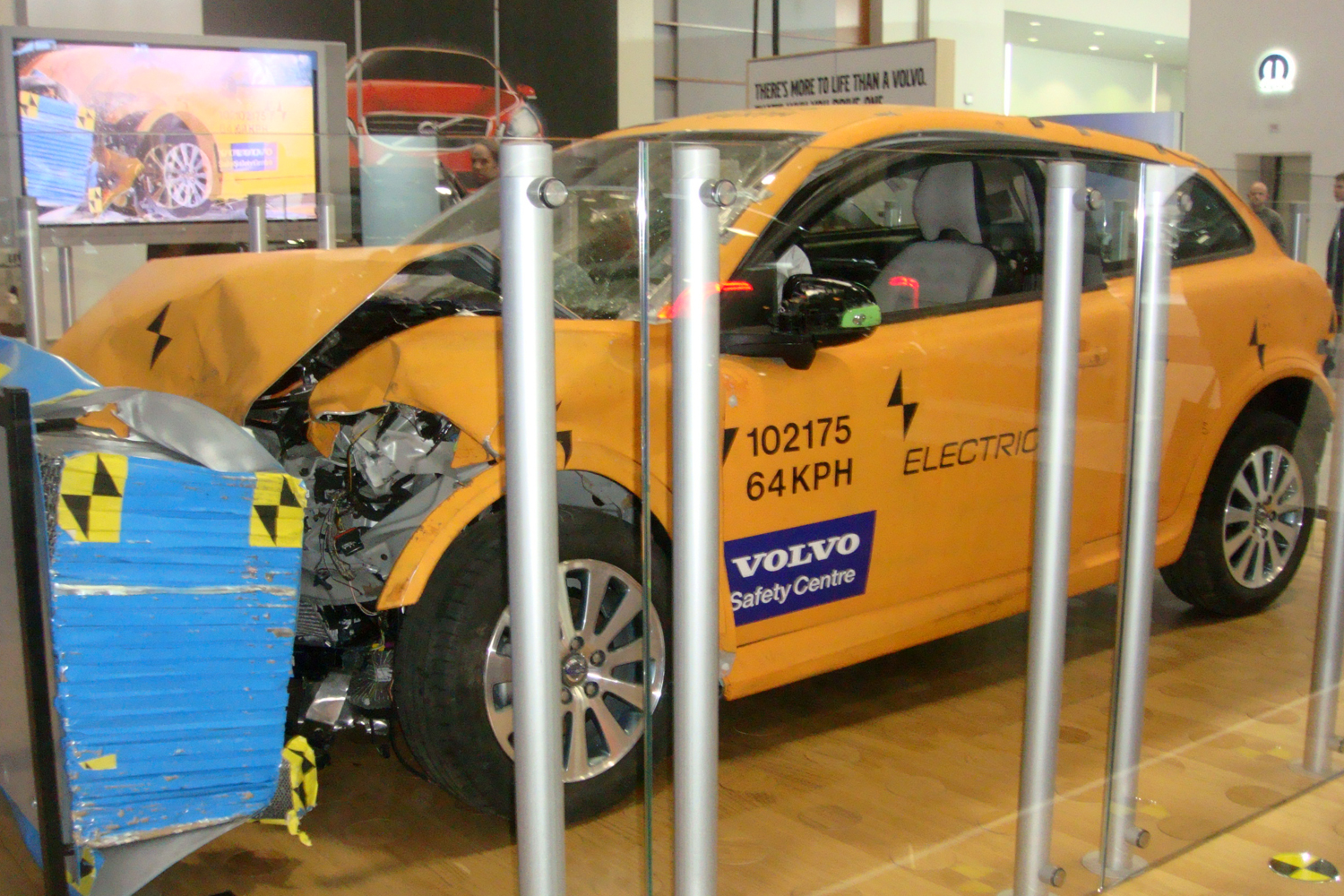 Crash-Tested Volvo C30 Electric exhibited at the 2011 Washington Auto Show